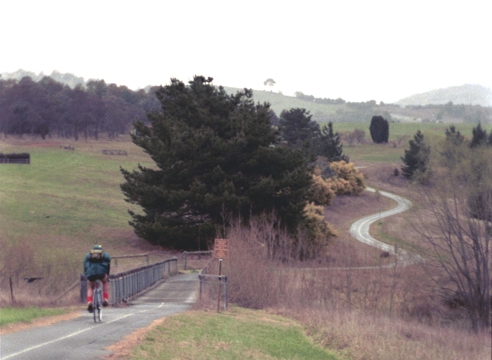 One of many bikepaths in and around Canberra. This one goes to Weston. More Photos